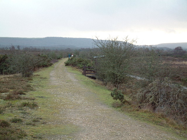 The track of the former Middlebere Tramway used for transporting ball clay runs across Hartland Moor. The 200 year old embankment of this former tramway curves to the west at this point. In the foreground, but partly hidden by a small tree, can be seen Hart Hide which is built into the side of the embankment. It looks out across Hartland Moor National Nature Reserve. The Purbeck Hills are in the background. For more information see the Wikipedia article Middlebere Tramway.